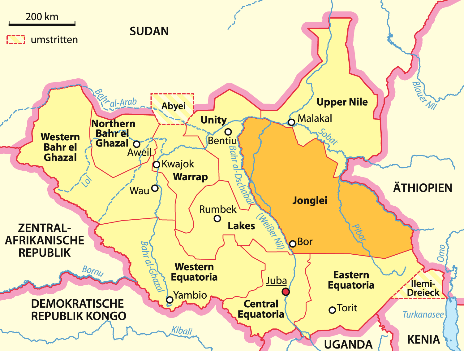 Map with Jonglei state highlighted, in the Greater Upper Nile region of northeastern South Sudan.